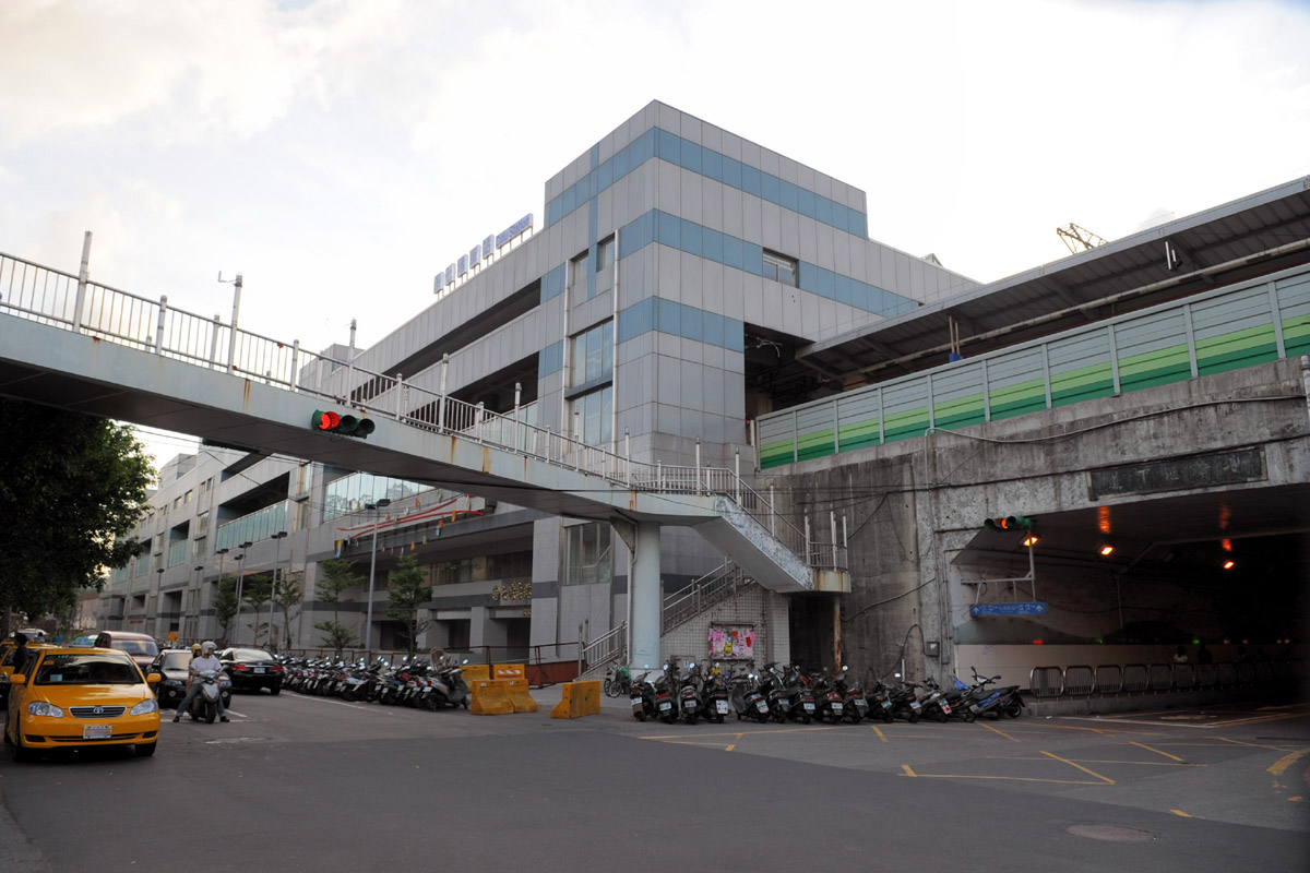 Taiwan Railway Administration CiDu Station, East gate.中文（台灣）: 從基隆市七堵區東新街人行天橋拍攝臺灣鐵路管理局七堵車站東側站房。拍攝時本站東出口尚未啟用，本站實際出入口是在右側長興地下道內。